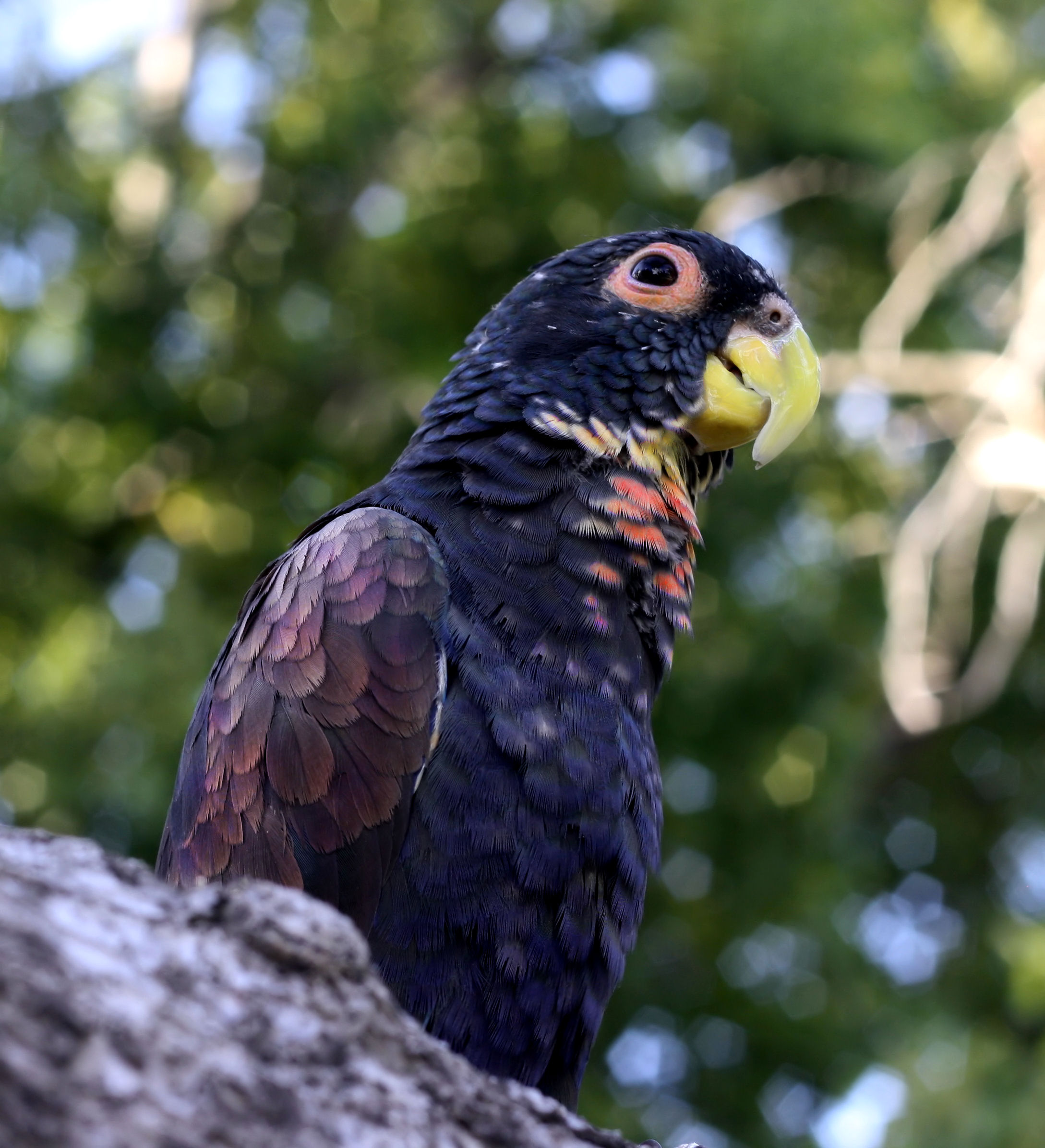 A pet Bronze-winged Parrot (also known as Bronze-winged Pionus).